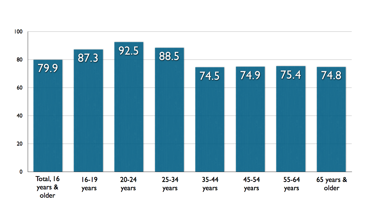 Women's earnings as a percentage of men's, median usual weekly earnings of full-time wage and salary workers, by age, 2008